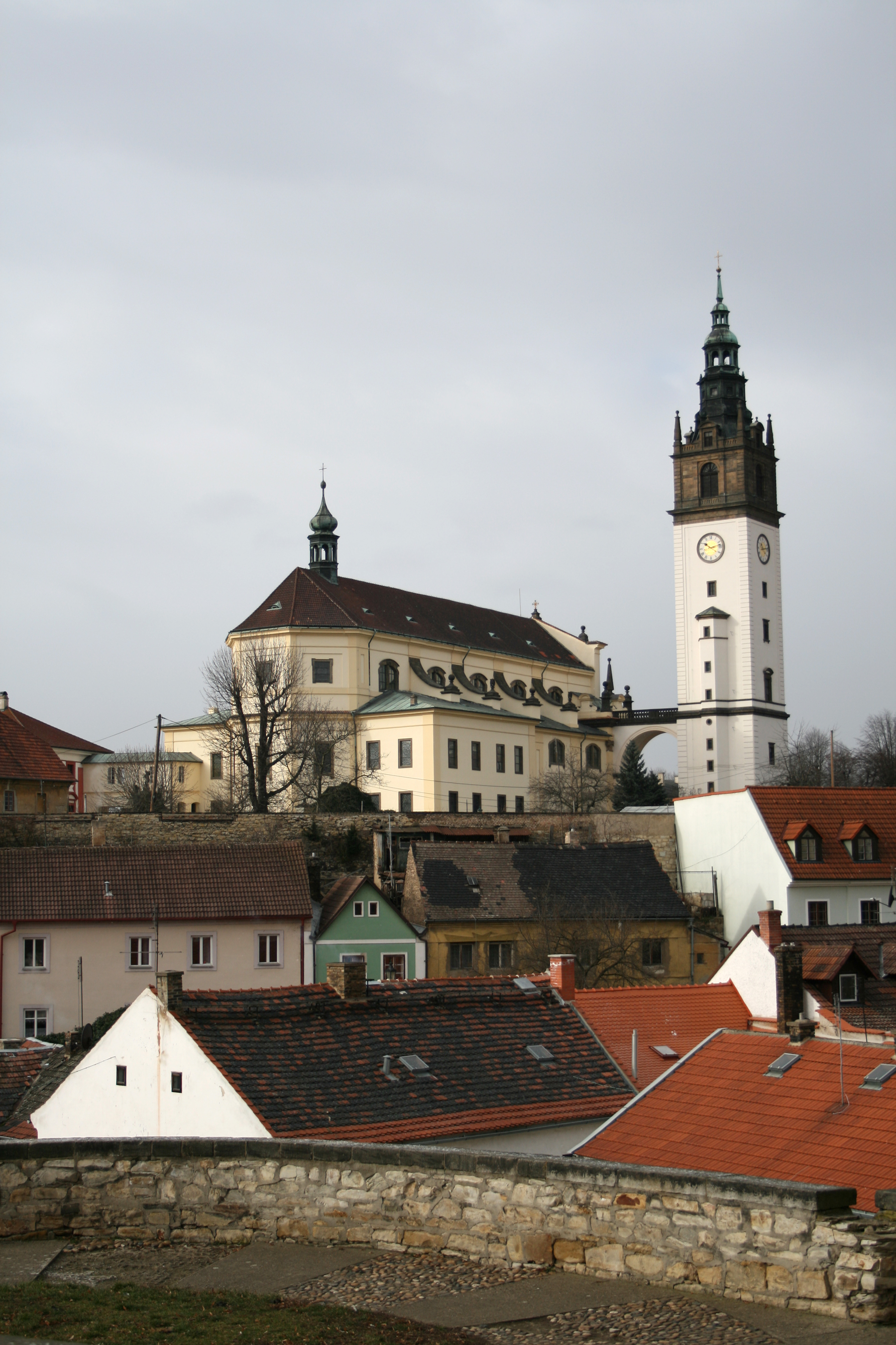 St. Stephen cathedral with belfry in Litoměřice, Czech Republic